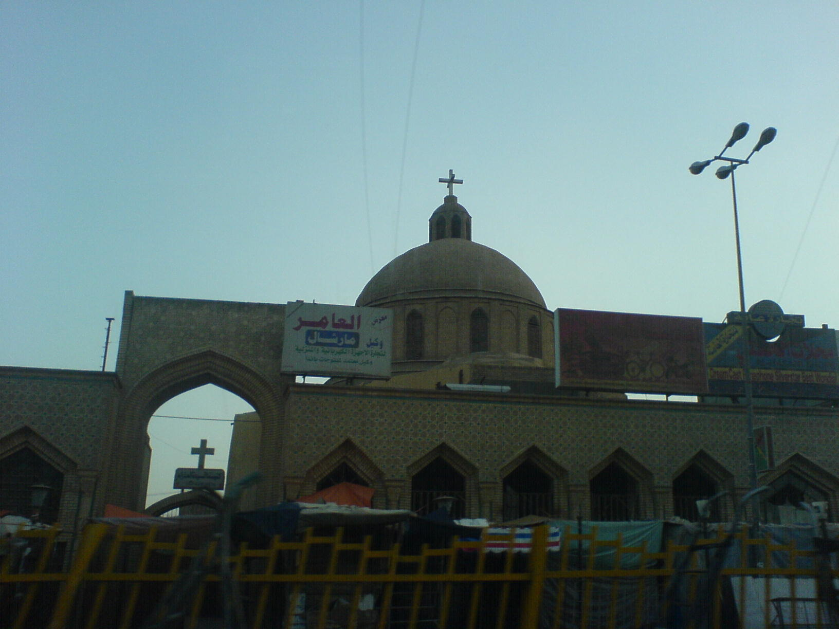 Latin church (St. Joseph's Cathedral) in Shorja market, Baghdad